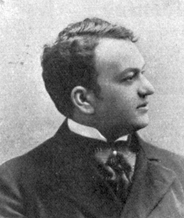 Siegmund Natzler (1862–1913), Austrian operetta singer (baritone), actor, director and theater director.